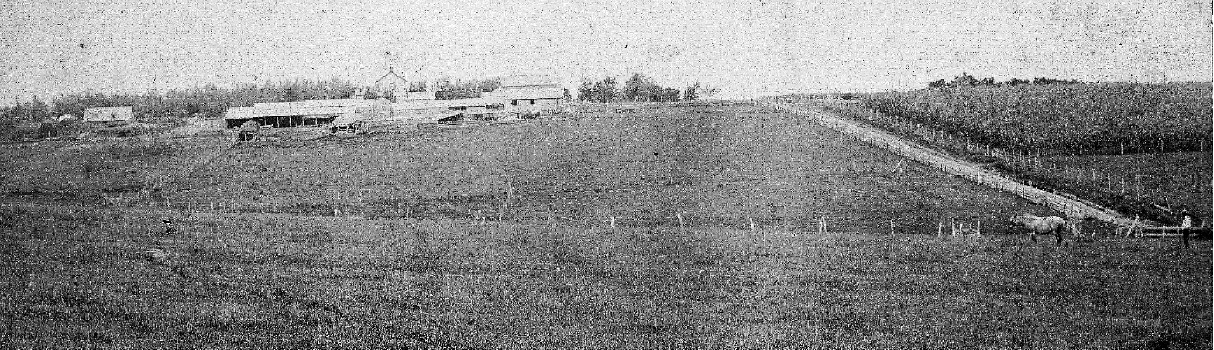 More than 100 year old photo